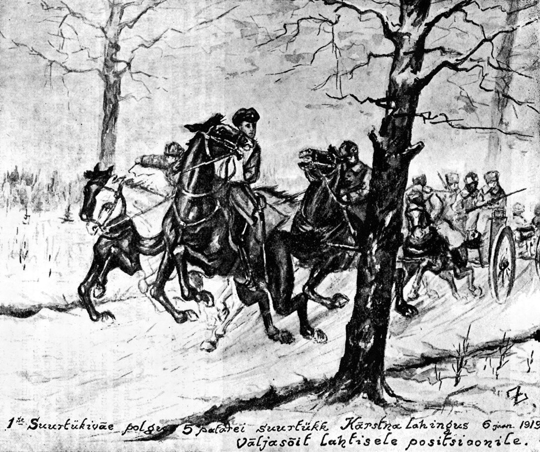 An artillery piece from Battery No 5 of the 1st Artillery Regiment in the battle of Kärstna on 6 January 1919, moving into an open position.